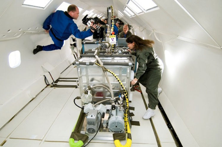 NASA engineers test the electron beam freeform fabrication (EBF3) system during a parabolic flight in 2006.